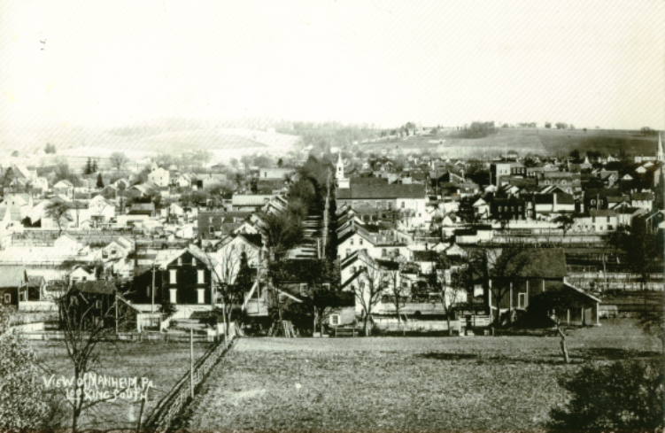 Manheim in Lancaster Country, Pennsylvania